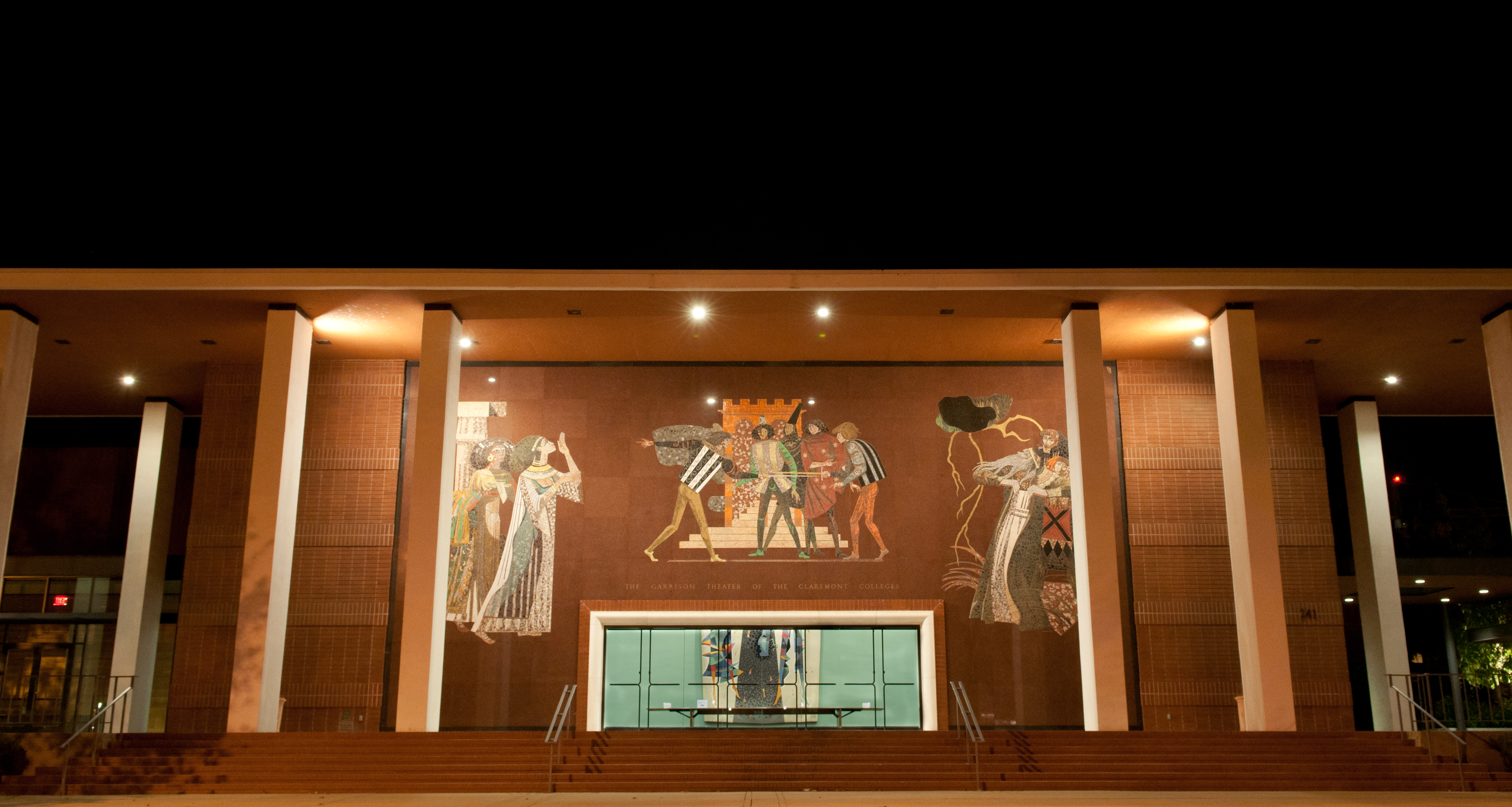 Scripps College for Women